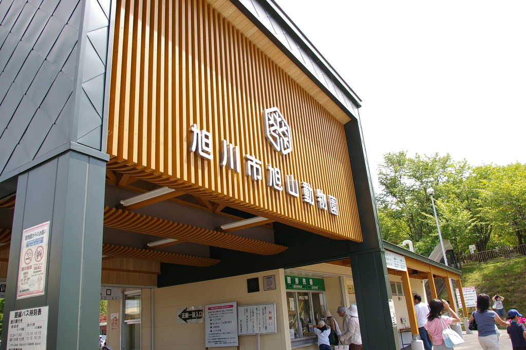 The main gate of the Asahiyama zoo, Asahikawa, Hokkaido, Japan.